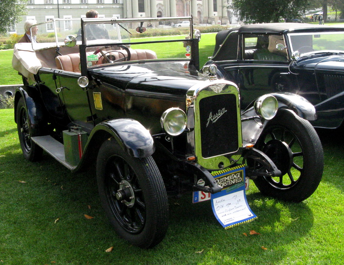 1926 Austin 12 at vintage vehicle show in Fürstenfeld (Bavaria)